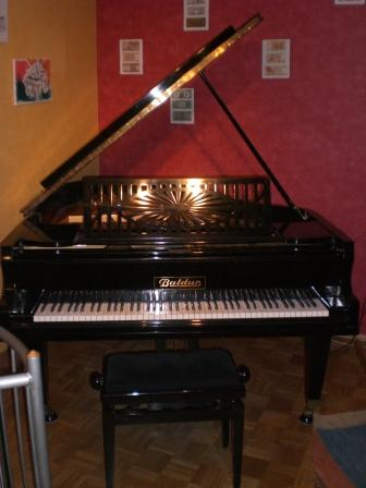 This Picture schows a Baldur Grand Piano. Built ca. 1925